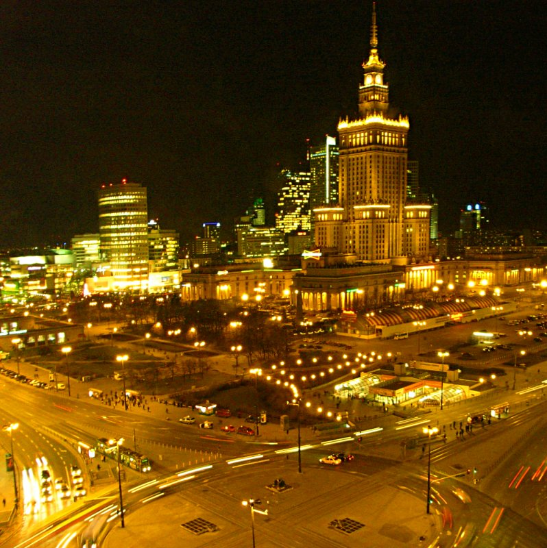 Taken from the 17th floor of Novatel Warsaw Centrum in Poland.